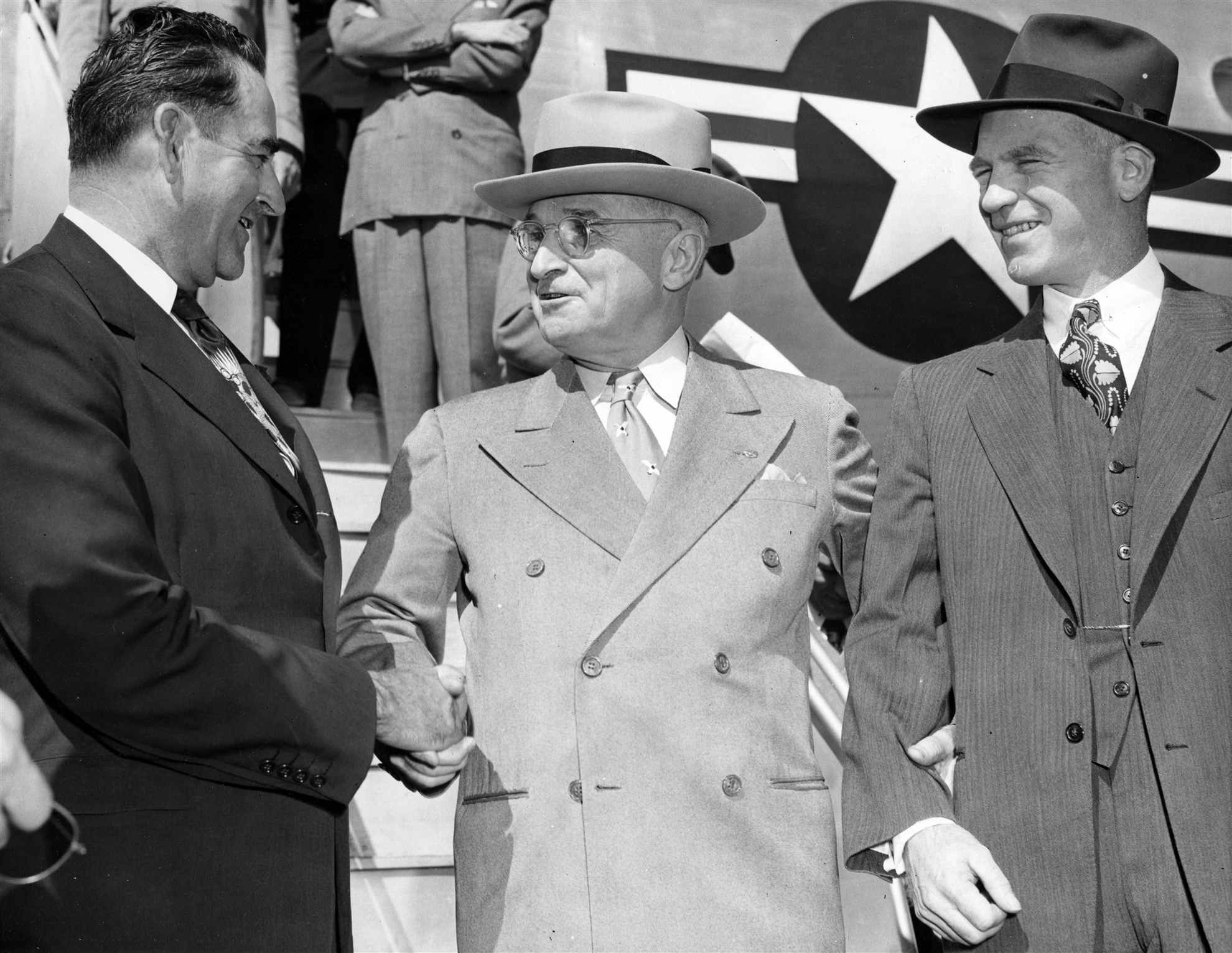 Governor W. Kerr Scott (left); President Harry S. Truman (center); Gordon Gray, president of the University of North Carolina (right), October 15, 1951. Scott and Gray are greeting the president on his arrival at the Winston-Salem airport. President Truman gave a speech at the groundbreaking ceremony for the Reynolda Campus at Wake Forest University in Winston-Salem. Harry S. Truman (1884-1972) served as the 33rd President of the United States (1945-53), assuming the office upon the death of Franklin D. Roosevelt during the waning months of World War II. W. Kerr Scott (William Kerr Scott) (1896-1958) was the 62nd Governor of North Carolina from 1949 until 1953. Gordon Gray (1909-1982) was President of the University of North Carolina (1950-55), an official in the government of the United States during the administrations of Harry Truman (1945-53) and Dwight Eisenhower (1953-61) associated with defense and national security.